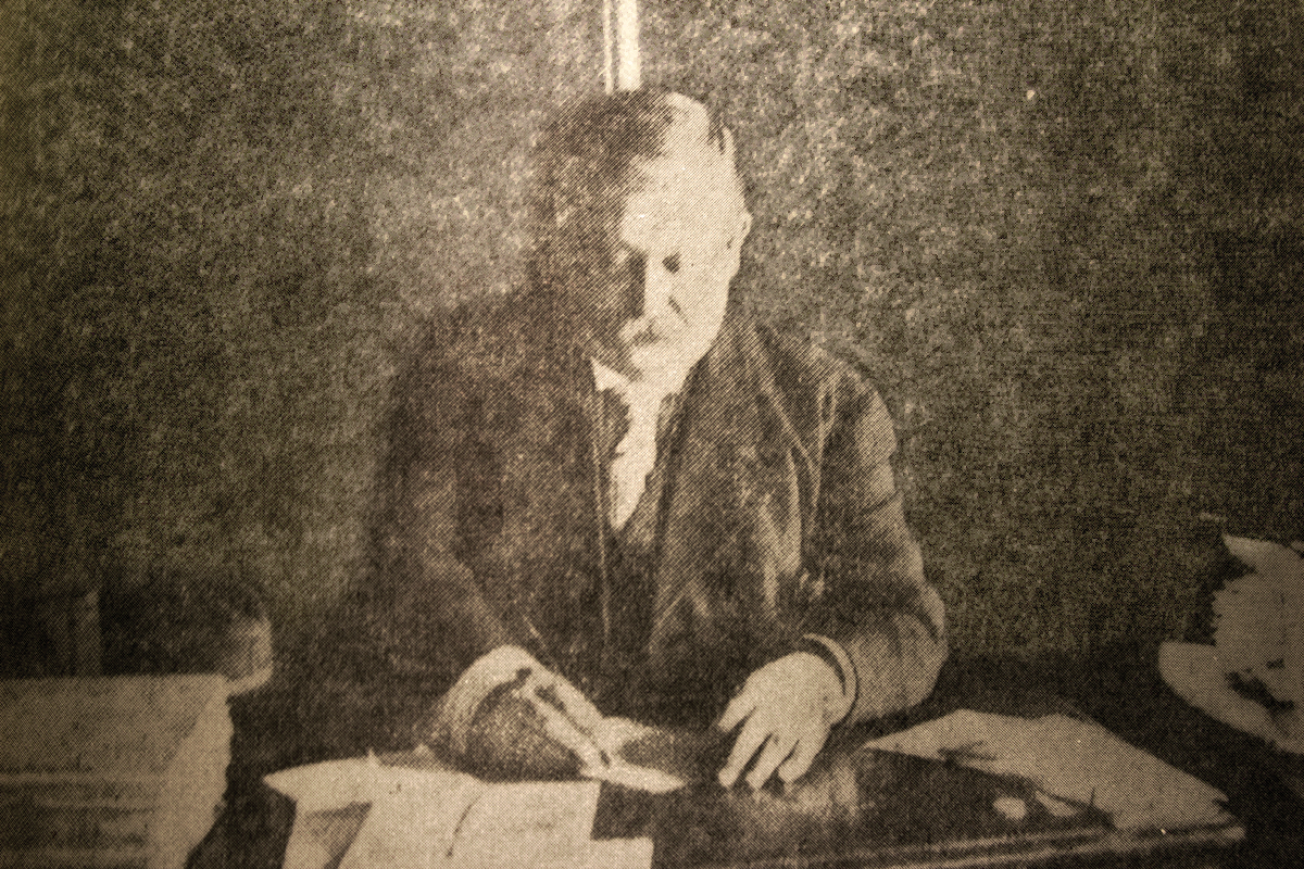 Fredrick H. Dyer working on the Compendium, from The Des Moines Register and Leader April 26, 1908